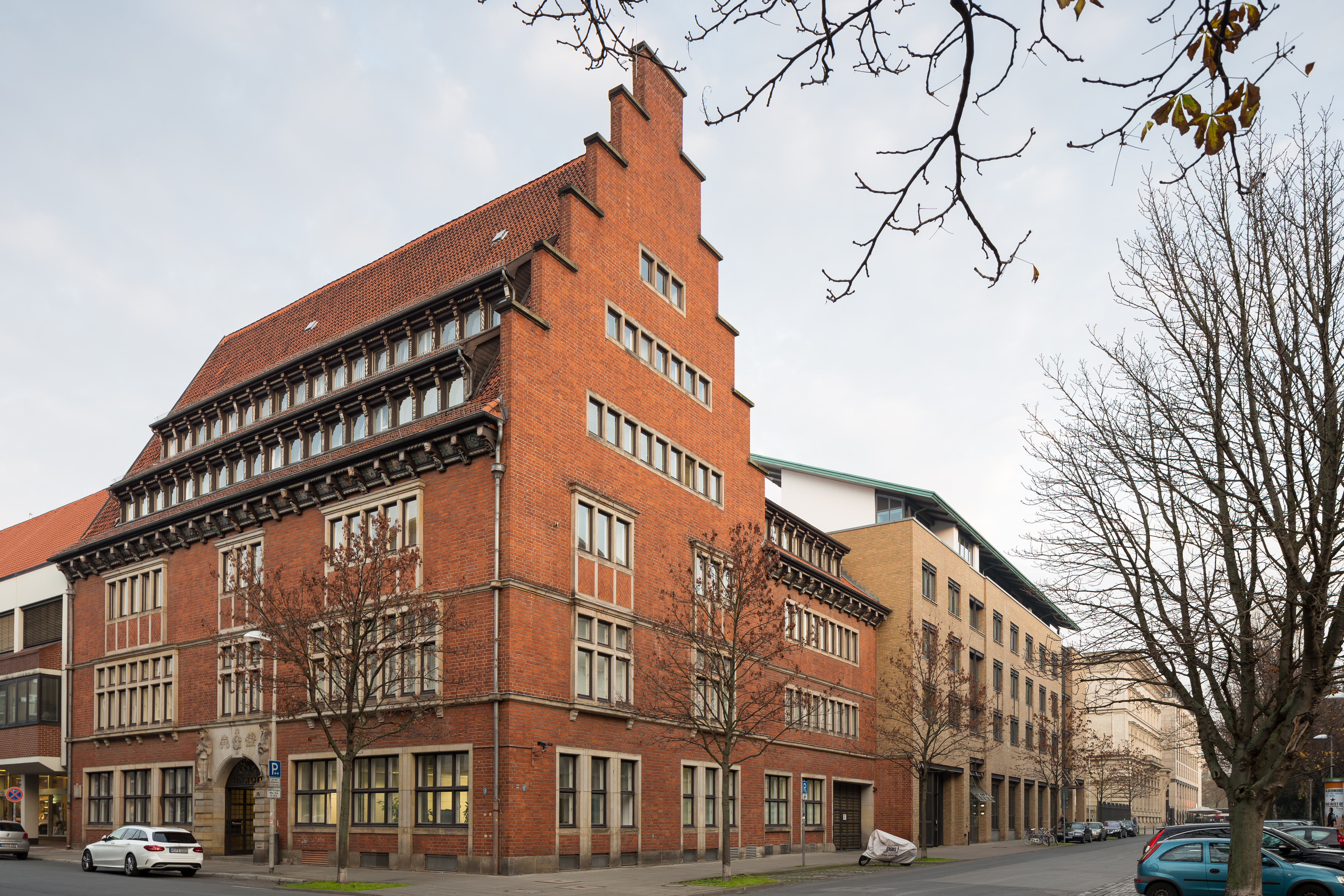 Ernst Grote house located at Breite Strasse no. 10 in central Hannover, Germany.